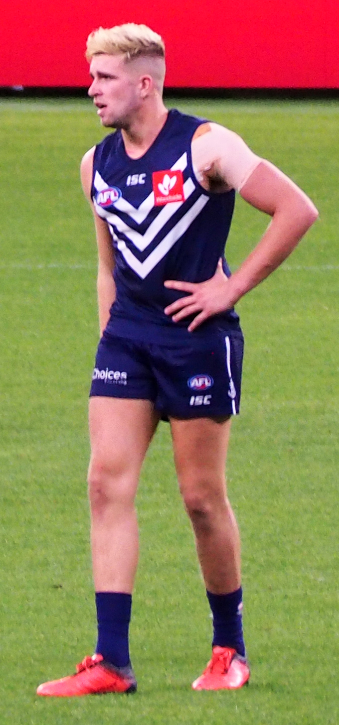 Luke Ryan playing for Fremantle Football Club at Optus Stadium, Round 6, 27 April 2019